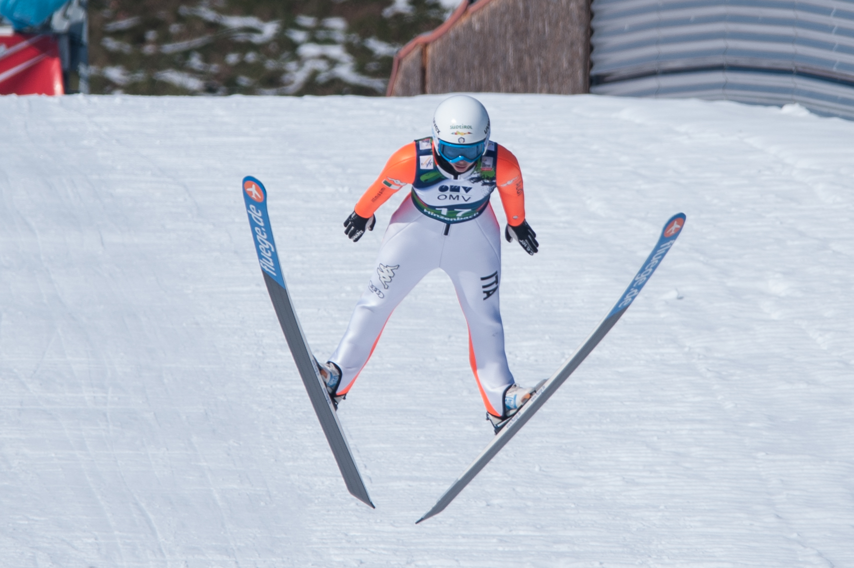 FIS Ski Jumping World Cup Hinzenbach Sun 1 Feb 2015